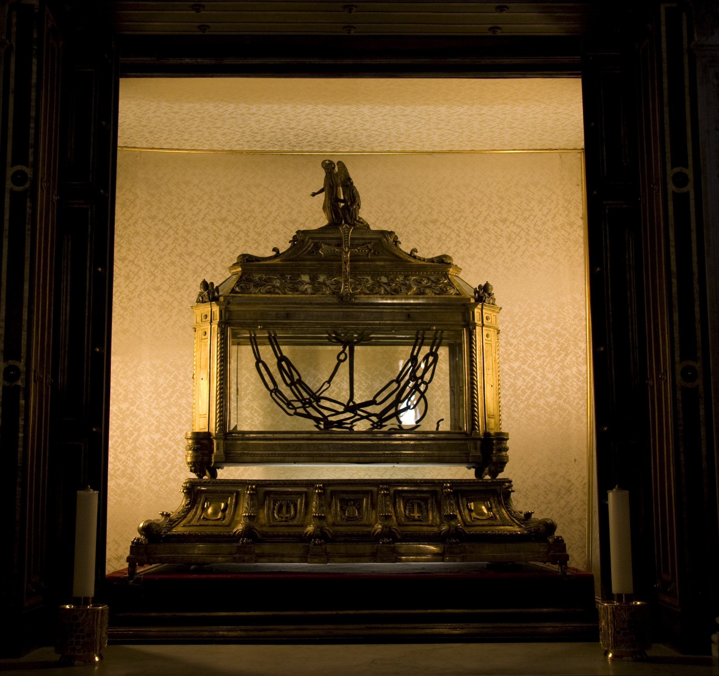 San Pietro in Vincoli is a church of Rome in Italy.